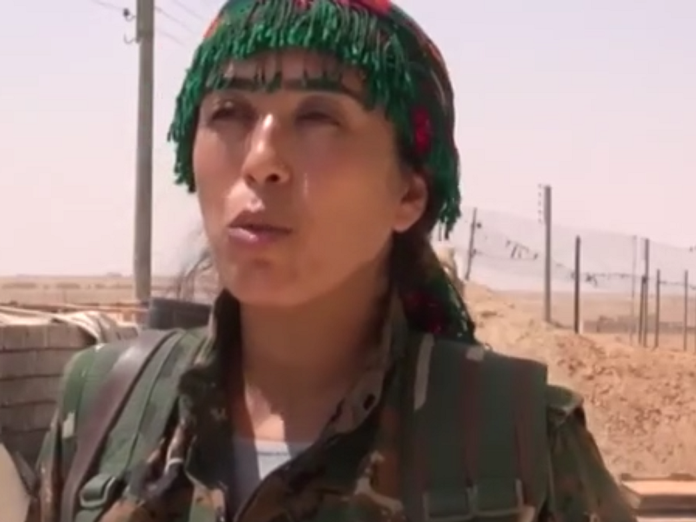 Rojda Felat, a YPJ top commander.